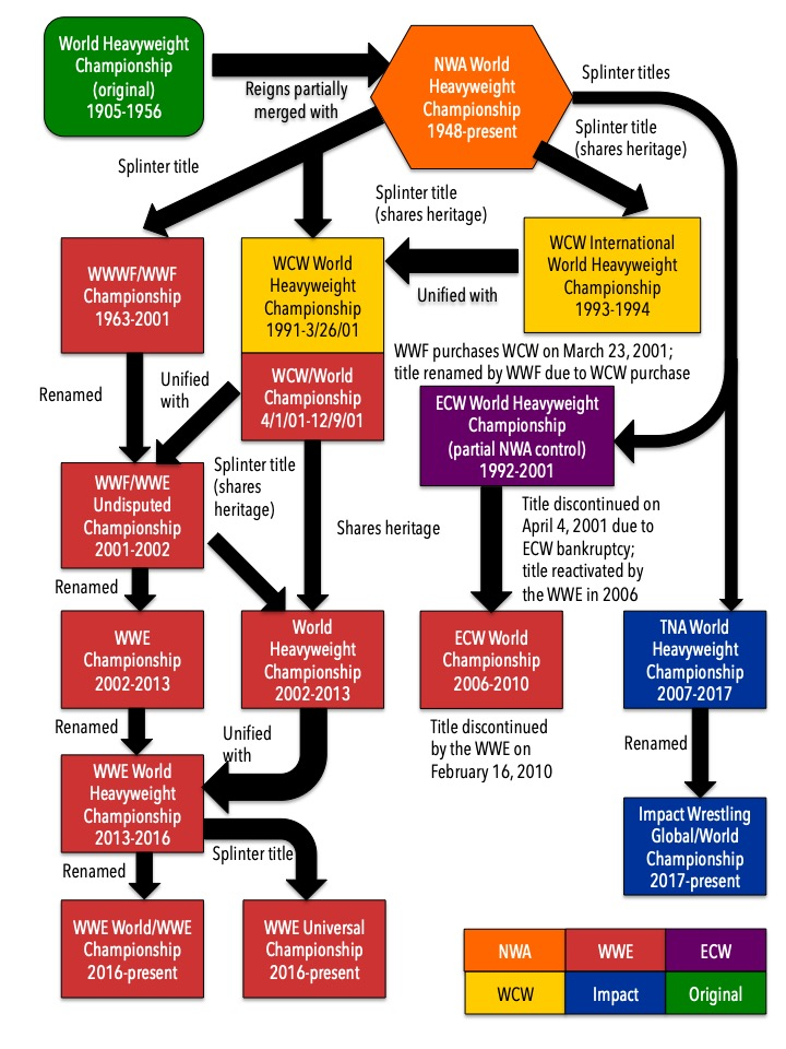 History of world heavyweight championships in WWE and WCW.